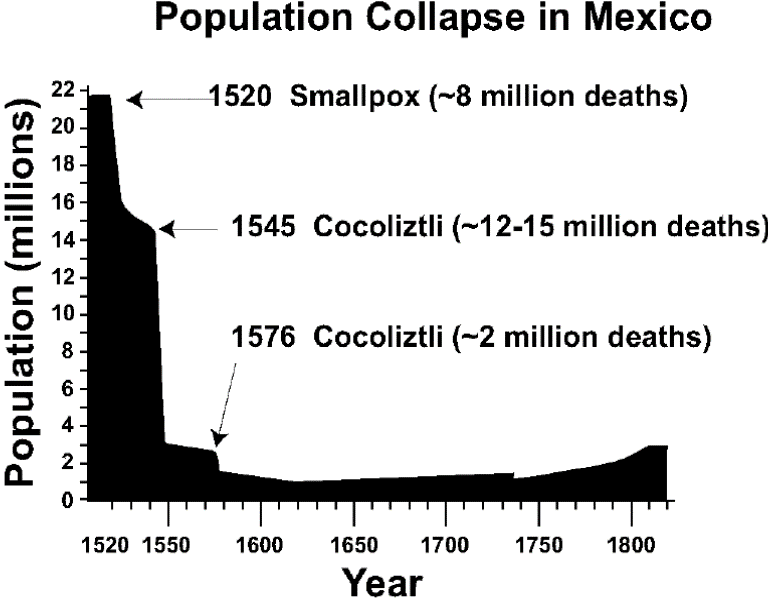 (original caption) Figure 1. The 16th-century population collapse in Mexico, based on estimates of Cook and Simpson (1). The 1545 and 1576 cocoliztli epidemics appear to have been hemorrhagic fevers caused by an indigenous viral agent and aggravated by unusual climatic conditions. The Mexican population did not recover to pre-Hispanic levels until the 20th century.